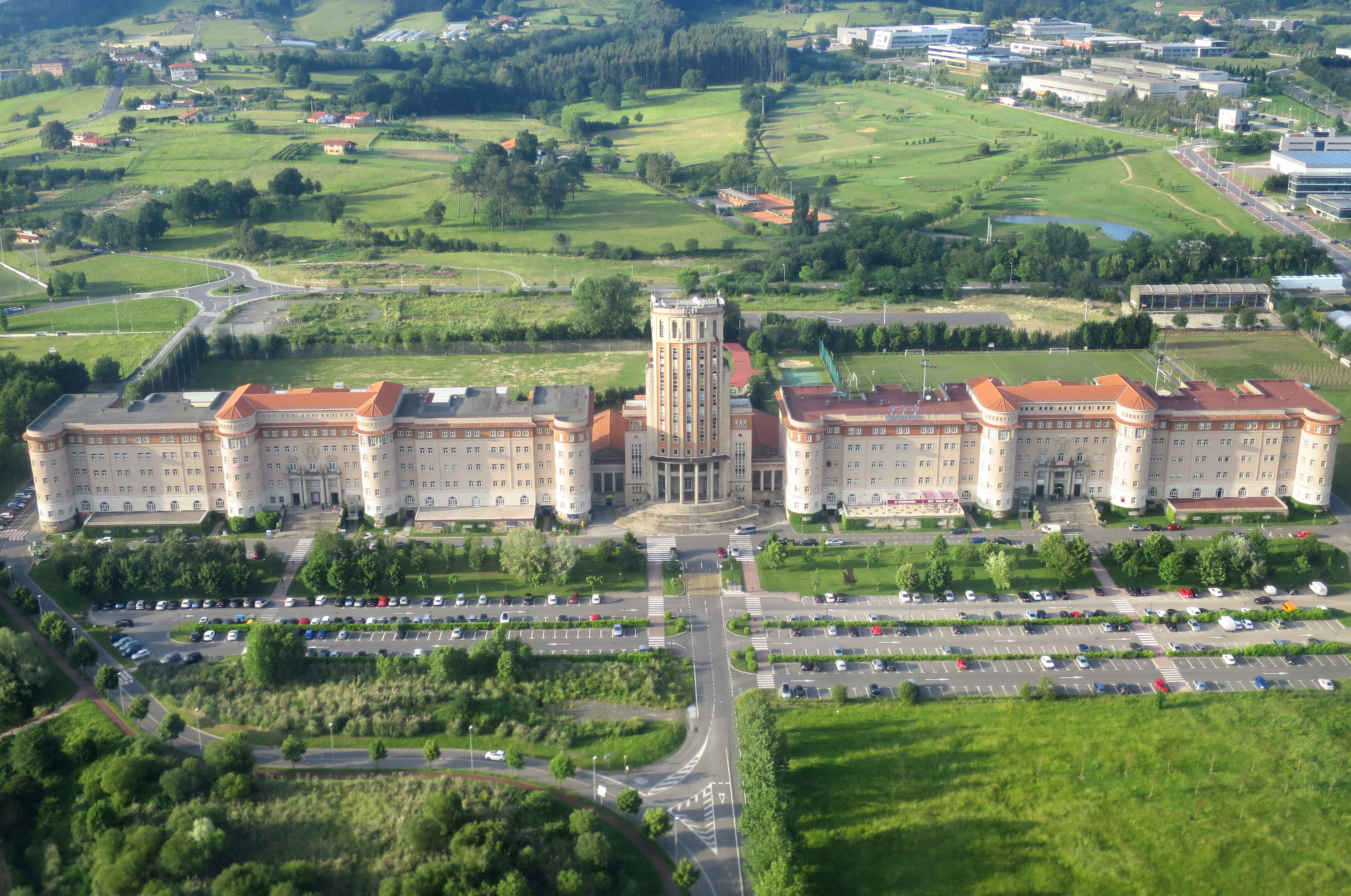 Arteaga centrum, the old Derio Seminary, near Bilbao in the Basque Country.